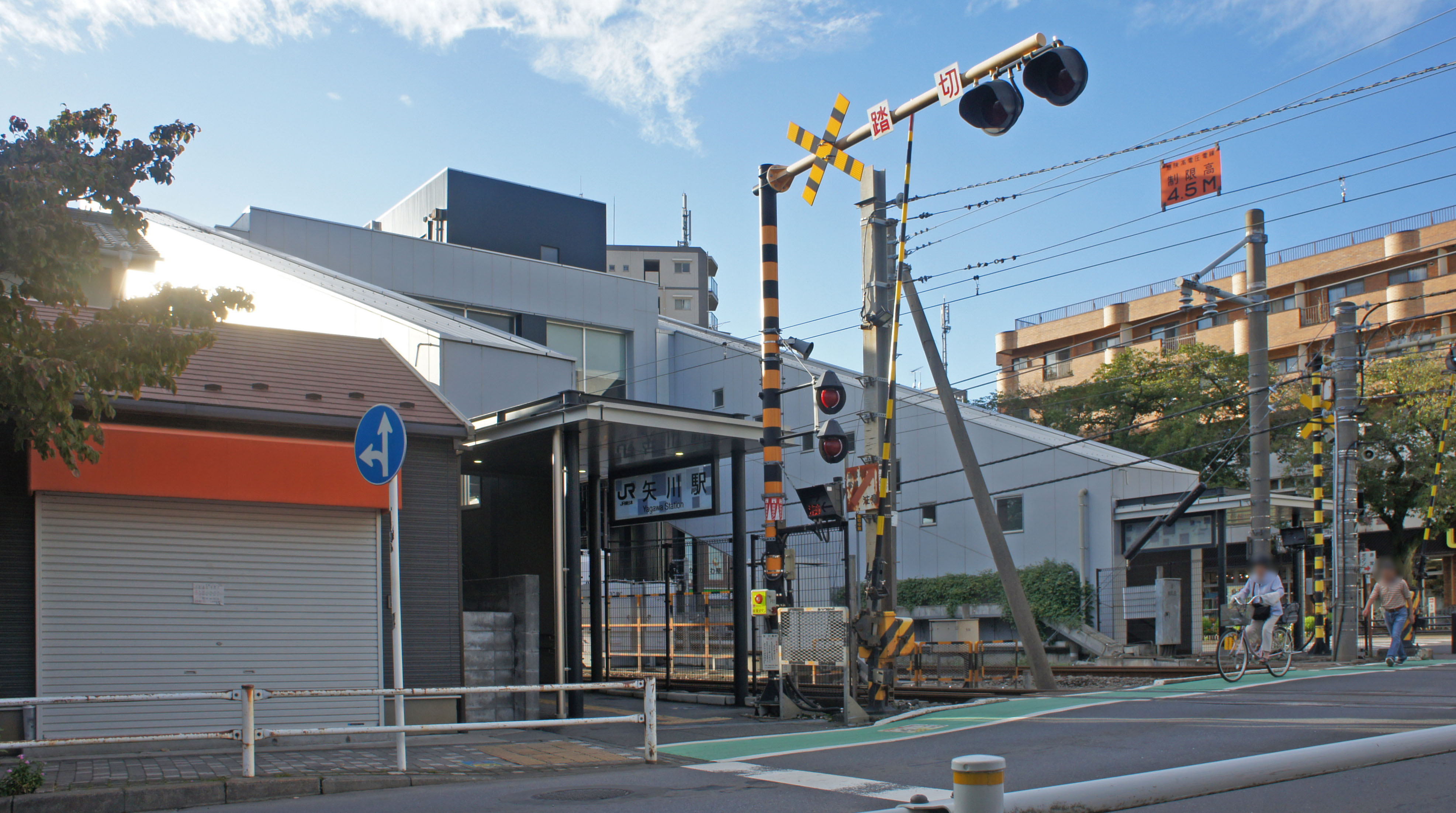 South Exit of JR Nambu-Line Yagawa Station